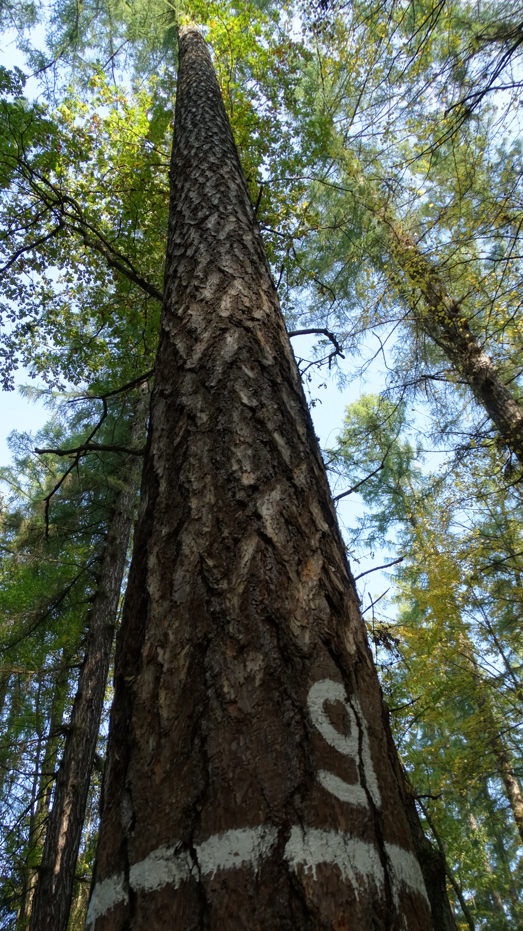 Highest larche tree in LT, Larix decidua var. polonica, Degsnė forest, Prienai district, Lithuania